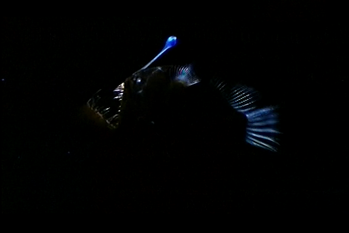 Cryptopsaras couesii